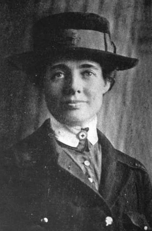 Black-and-white photograph of a white woman, Florence Merriam Johnson, wearing a hat and coat over a nurse's uniform, from 1921.